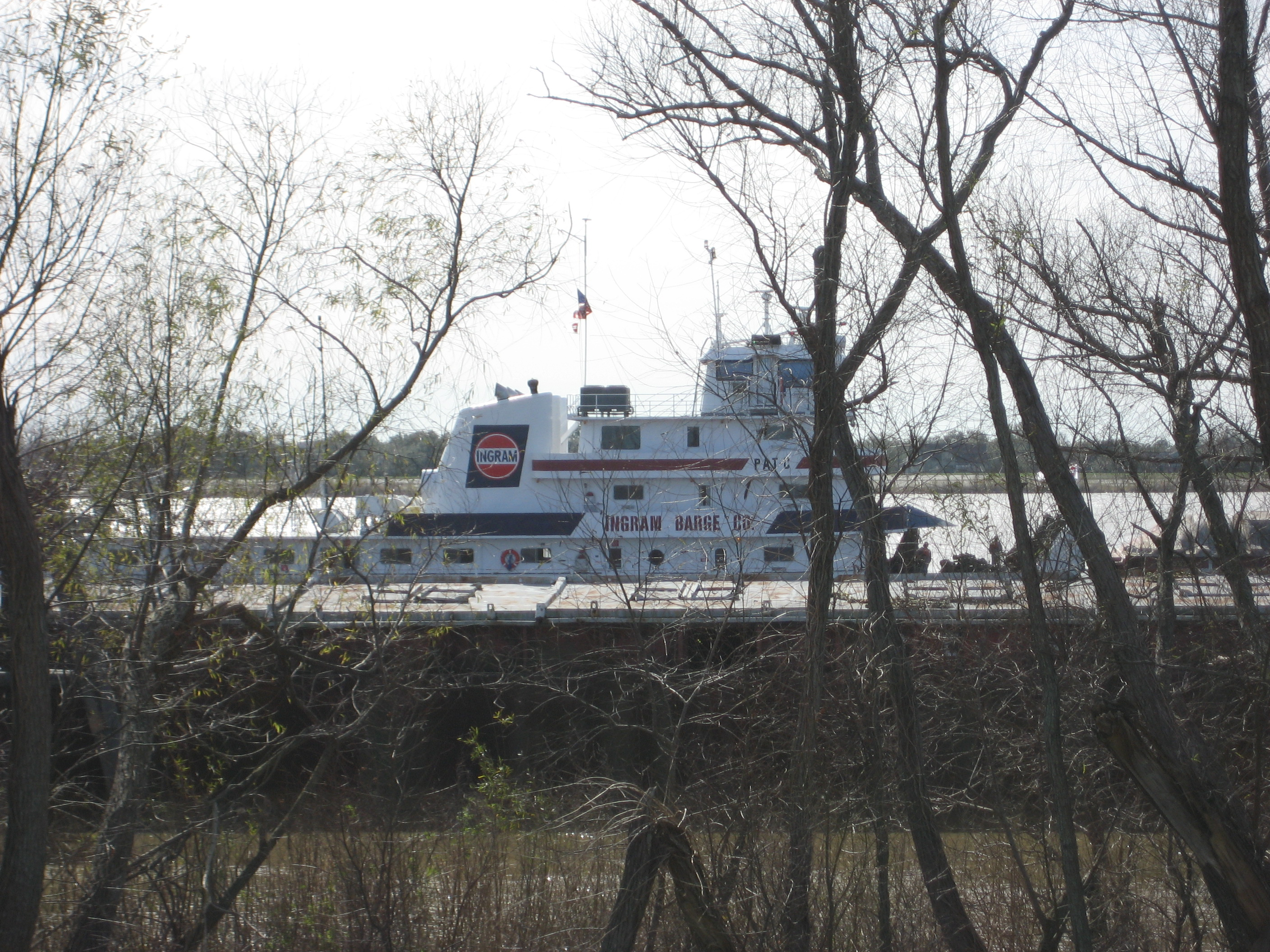 Ingram Barge Company tug boat in Mississippi at Chalmette, Louisiana